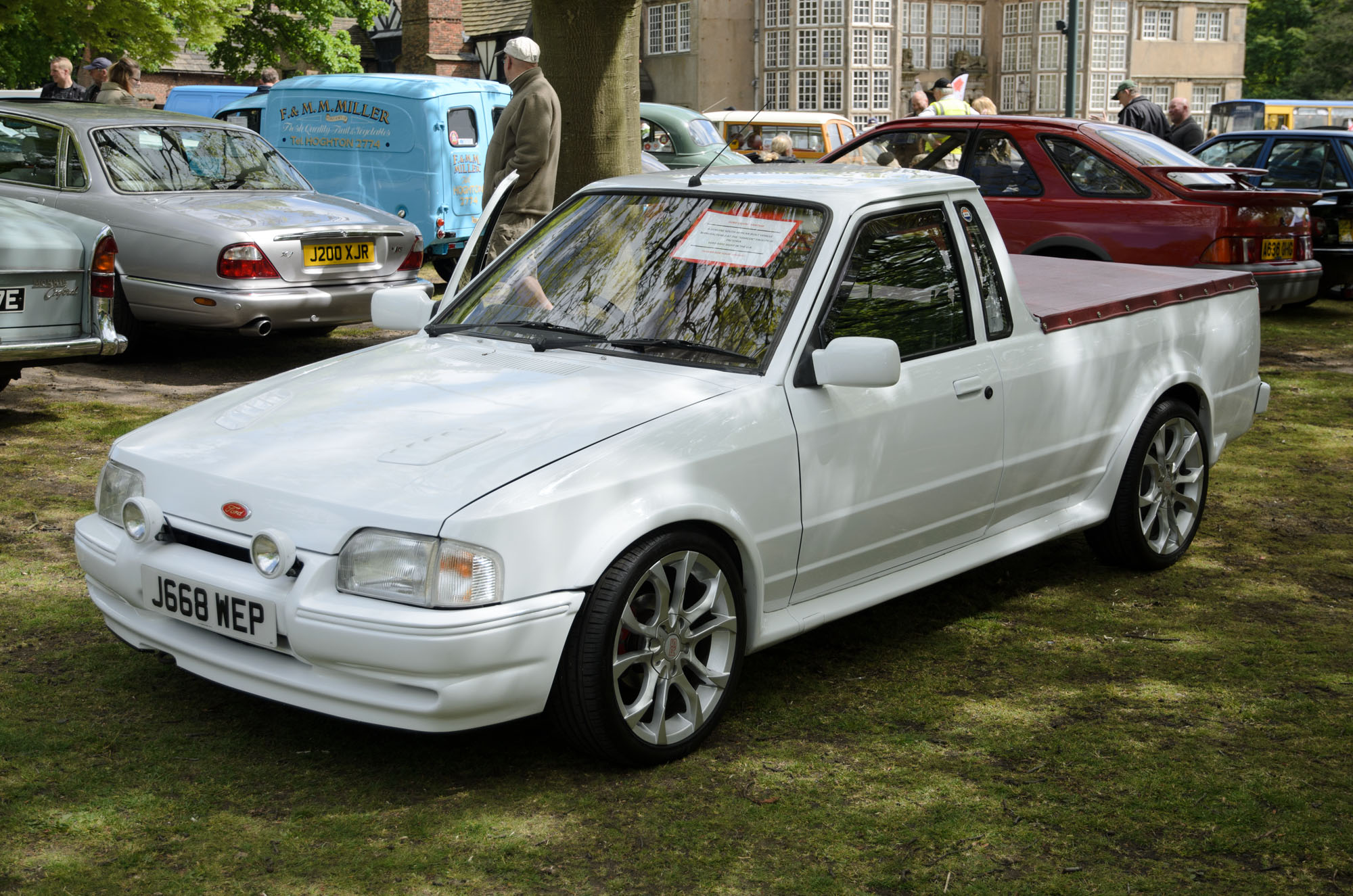 Ford Escort Bantam (1992) Astley Park (Chorley) Classic Car Show 14/05/2017